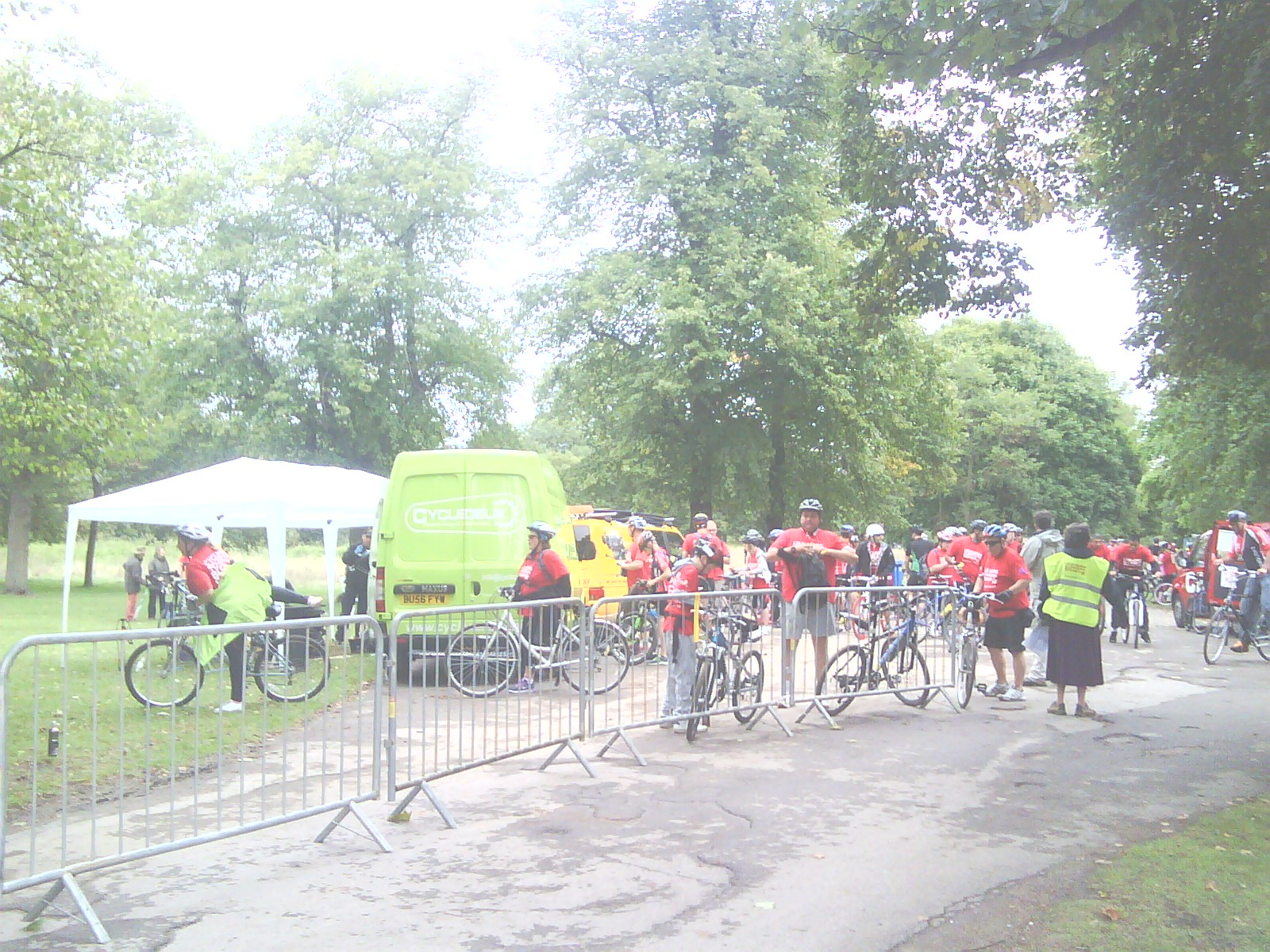 Refreshment station in the grounds of Ham House during the 2013 London Bikeathon in aid of Leukaemia & Lymphoma Research.